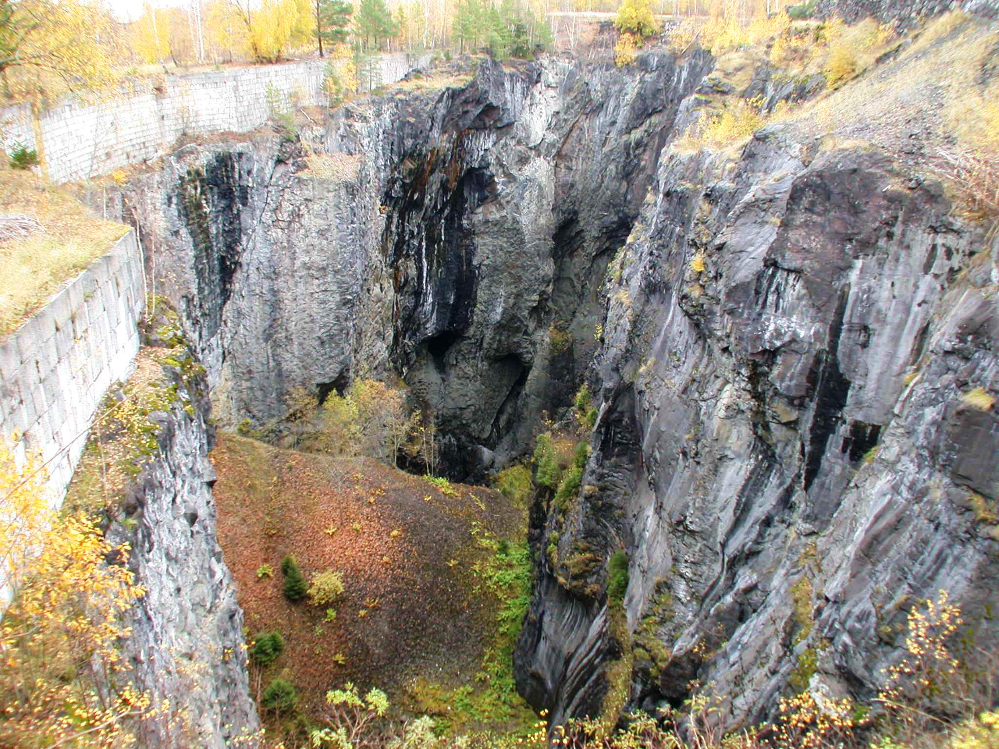 The mine shaft Borrymningen at Dannemora mines, Sweden.